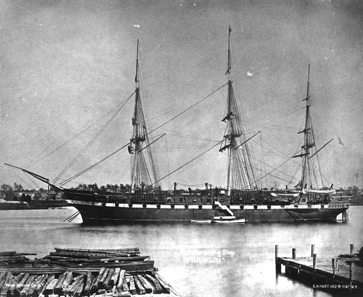 Photographed by E.H. Hart, 1162 Broadway, New York, probably at the Norfolk Navy Yard, Virginia, circa the 1880s. U.S. Naval Historical Center Photograph. USS Franklin (1864)